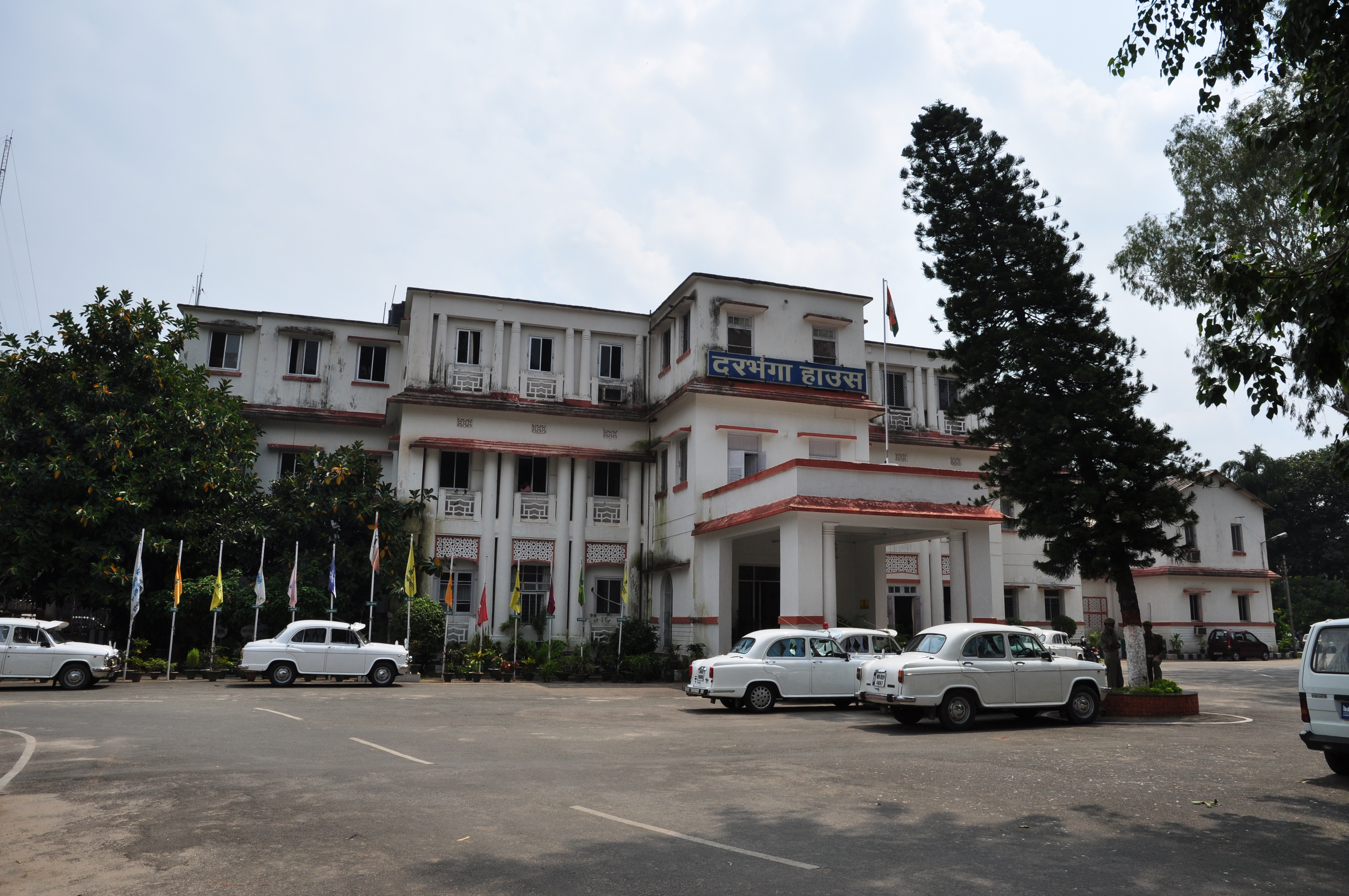 Registered and Corporate office of Central Coalfields Limited or CCL, Ranchi, Jharkhand.